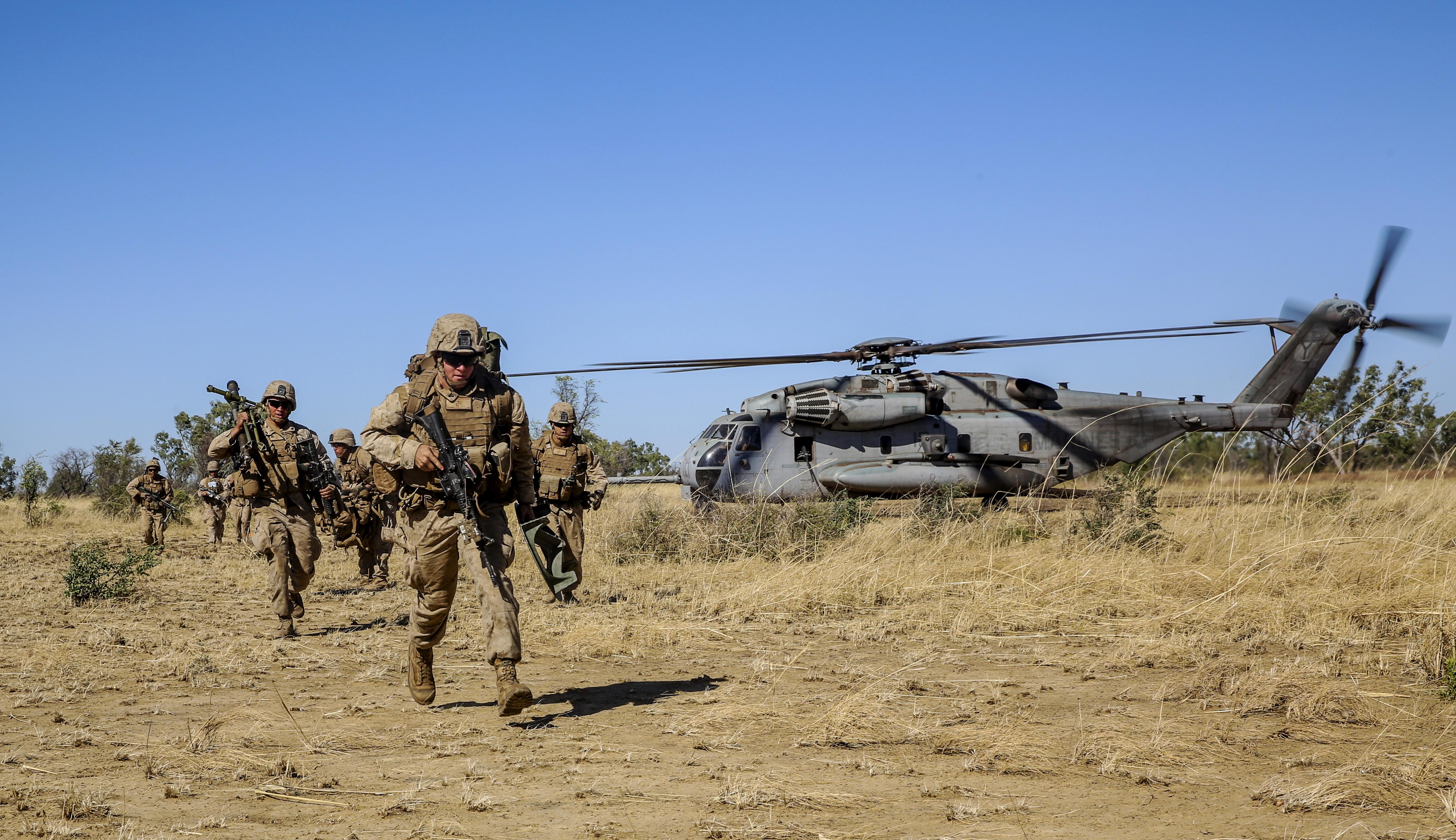 Marines with Bravo Company, 1st Battalion, 5th Marine Regiment, Marine Rotational Force-Darwin conduct a helicopter insert during a live-fire exercise at Bradshaw Field Training Area during Exercise Koolendong, August 2014. The focus of Exercise Koolendong 2014 is to establish a 4th Marines and Australian Defence Force combined headquarters element, directing ground, aviation and logistics capabilities in austere conditions, employing all maneuver elements in execution of the exercise. (U.S. Marine Corps photo by Cpl. Scott Reel/Released)